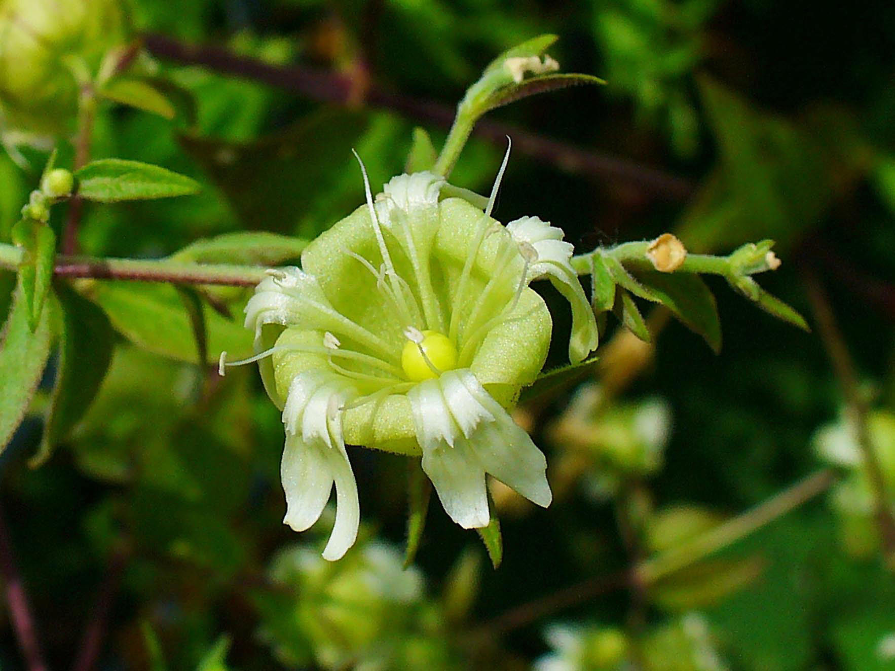 Silene baccifera, Caryophyllaceae, Berry Catchfly, flower; Botanical Garden KIT, Karlsruhe, Germany.